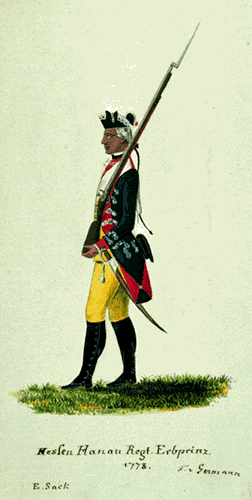 Watercolor of a fusilier from Hessen Hanau Regt. Erbprinz. Painted in Canada in early 1777.